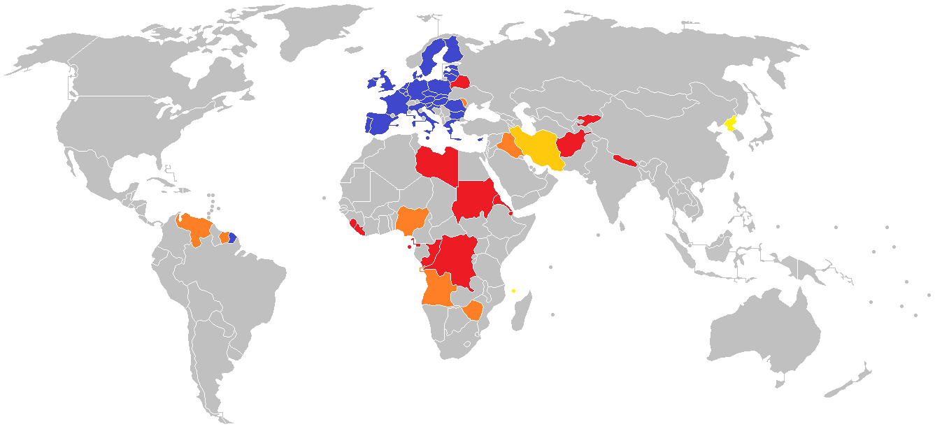 English (en): World's states coloured by restrictions on airlines entering the European Union. European Union. All airlines banned. Some airlines banned. Some airlines banned and others under Annex B restrictions. Some airlines under Annex B restrictions.